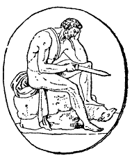 Suicide of Ajax